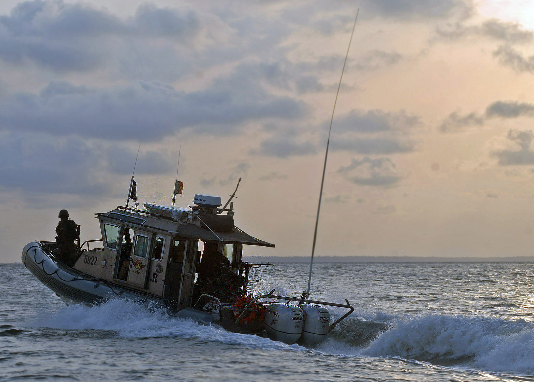 DOUALA, Cameroon (March 23, 2011) A Cameroonian Rapid Intervention Brigade (BIR) boat patrols the Cameroon coastal waters after the multi-national training exercise Obangame Express 2011. This exercise is part of Africa Partnership Station which helps strengthen global maritime partnerships through training and collaborative activities for improved maritime safety and security in Africa. (U.S. Navy photo by Mass Communication Specialist 1st Class Darryl Wood/Released)